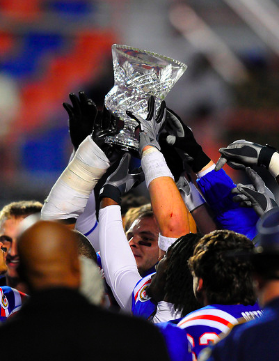 Picture of the trophy presented to the Louisiana Tech football team after winning the 2008 Independence Bowl in Shreveport, Louisiana.